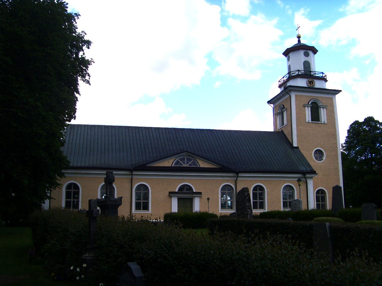 The church in Mörlunda, Småland, Sweden.